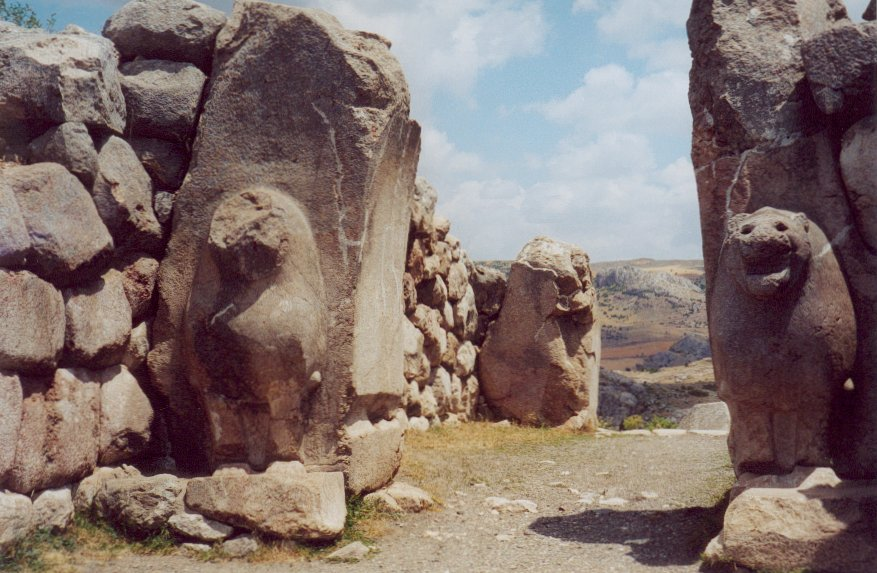 The Lion Gate at Bogazkale, Turkey. This was one of the two city gates. The arc is typical for Hittite architecure. Photo taken during our holidays in Turkey on July 7, 2001. As of June 2012, the head of the lion standing on the outer left side of the gate has been restored.